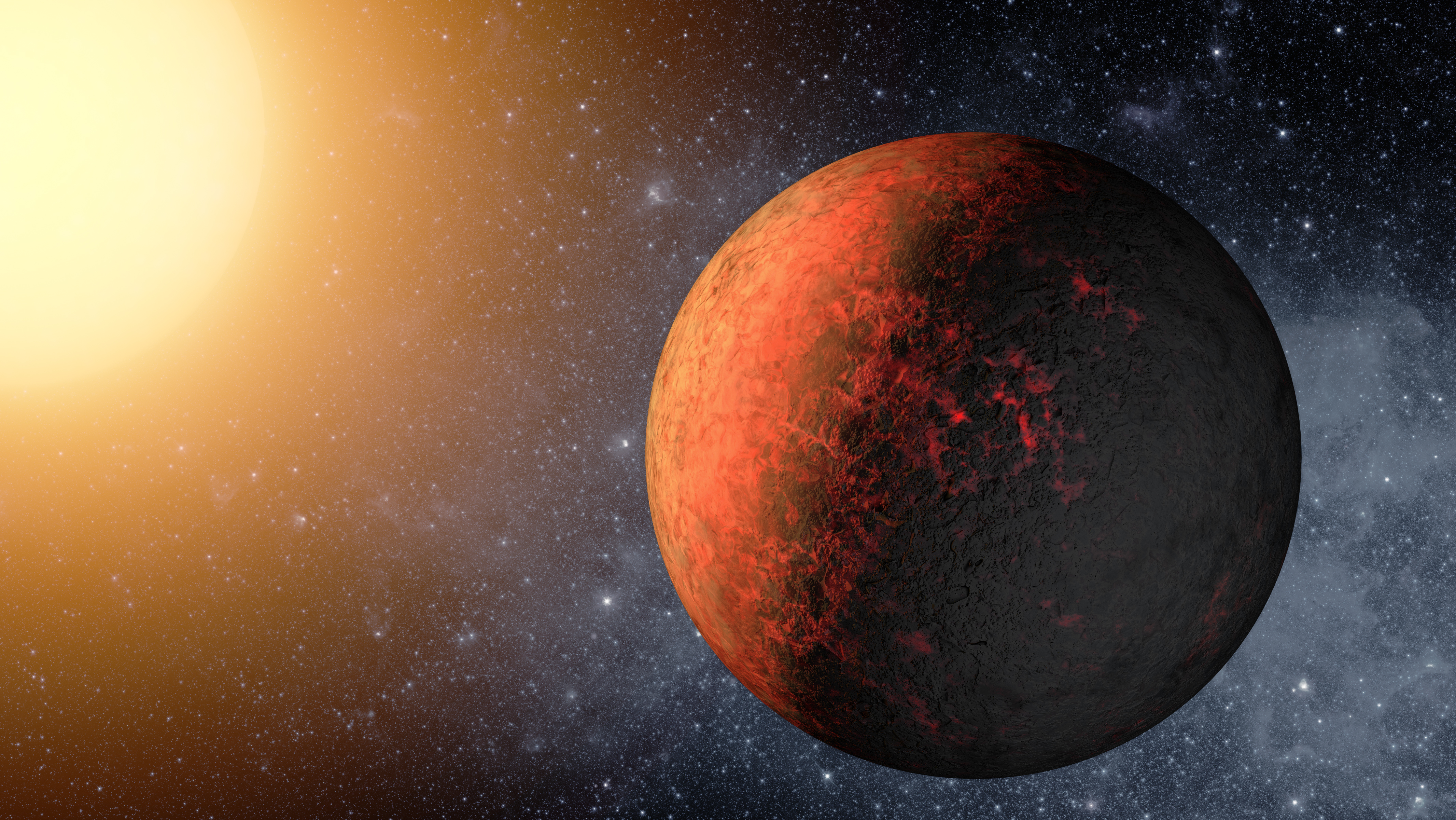 This is an artist's conception of Kepler-20e, the first planet smaller than the Earth discovered to orbit a star other than the sun. A year on Kepler-20e only lasts 6 days, as it is much closer to its host star than the Earth is to the sun.